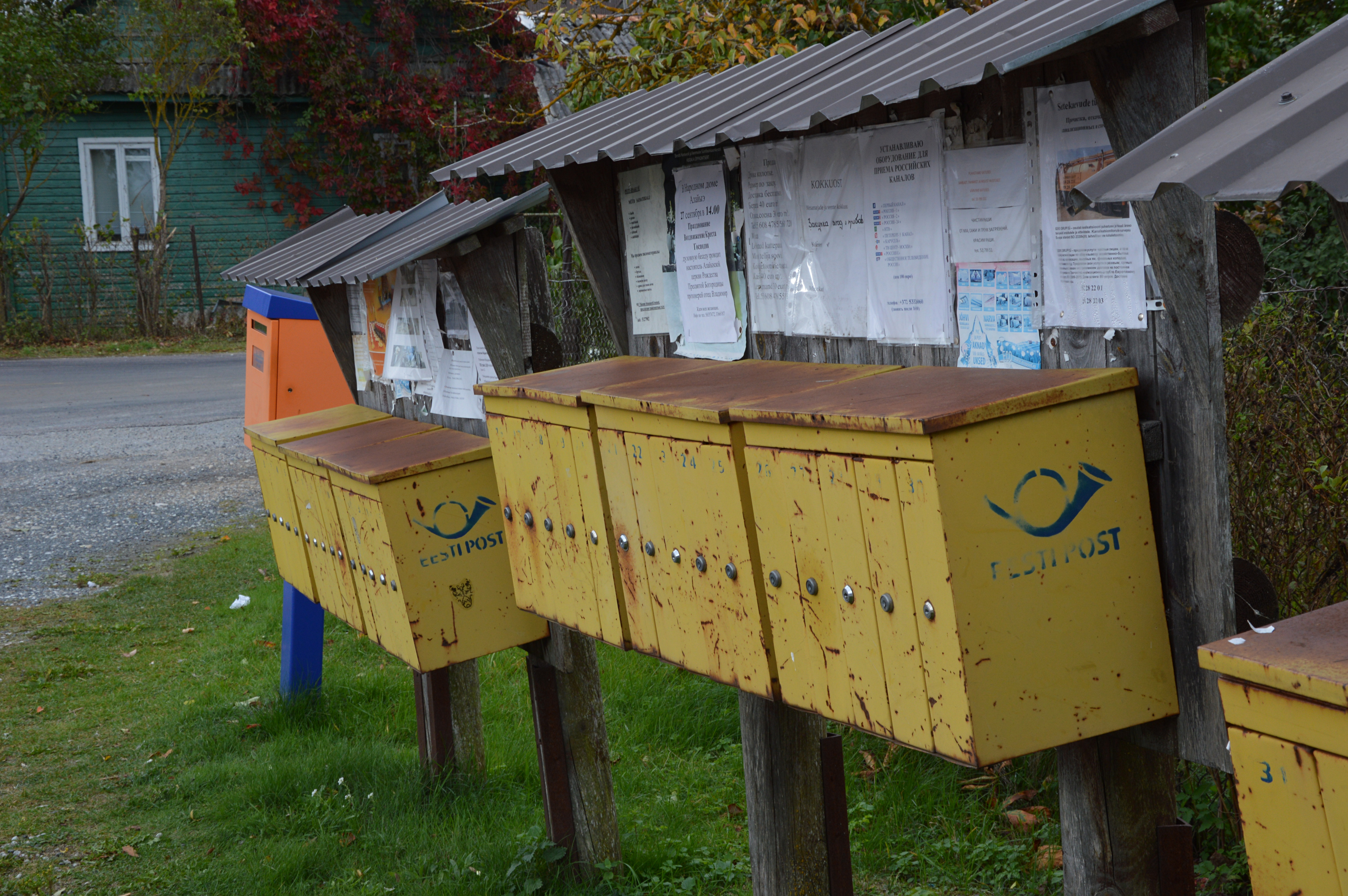 Old yellow letter boxes and modern orange post box in Alajõe village.